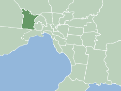 Map of Melbourne's Local Government Areas, highlighting City of Brimbank